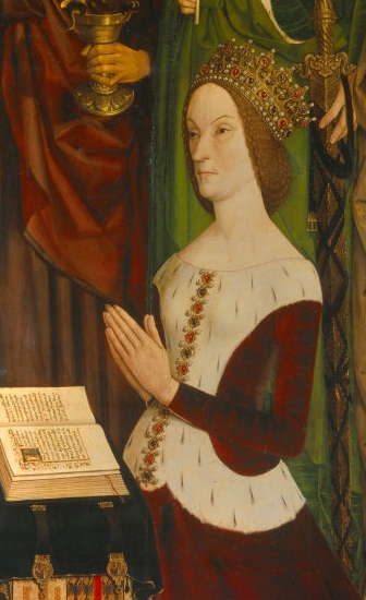 Triptych of the Burning Bush. Portrait of Jeanne de Laval (1433-1498). Aix-en-Provence (France), Musée Granet